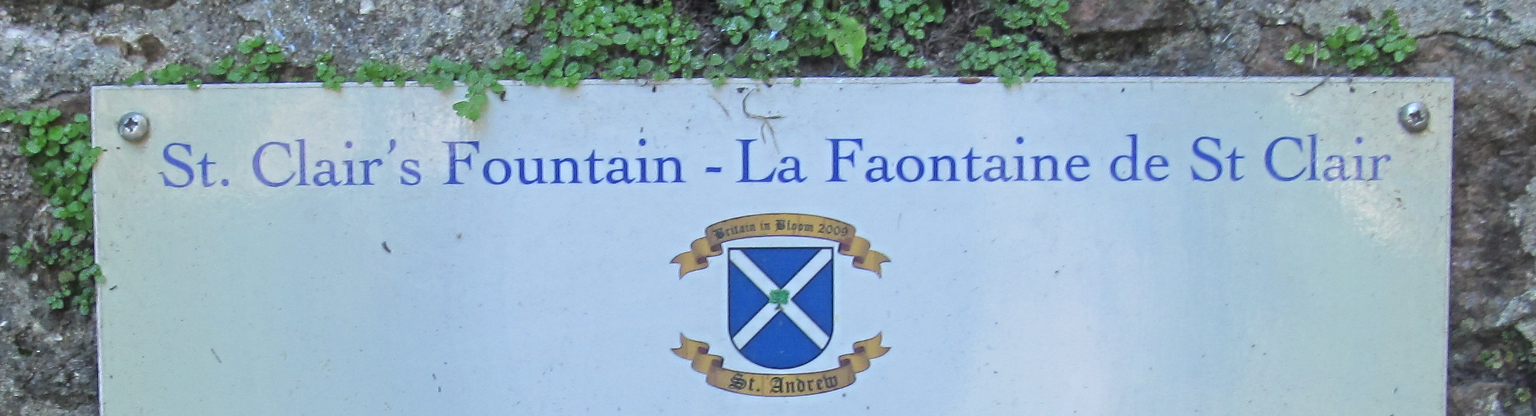 Guernsey, July 2011: St. Clair's Fountain